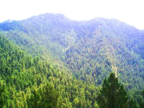 The Nathia Gali area, north of Abbottabad in the Khyber Pakhtunkhwa province, northern Pakistan. showing Western Himalayan subalpine conifer forests in Ayubia National Park.